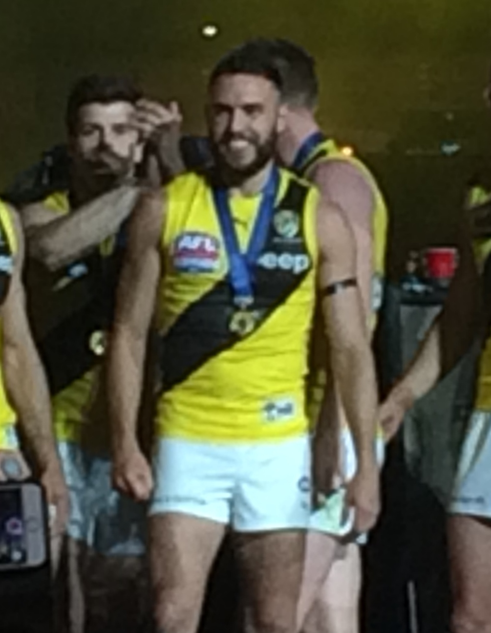 Richmond players celebrate on stage following the 2017 AFL Grand Final